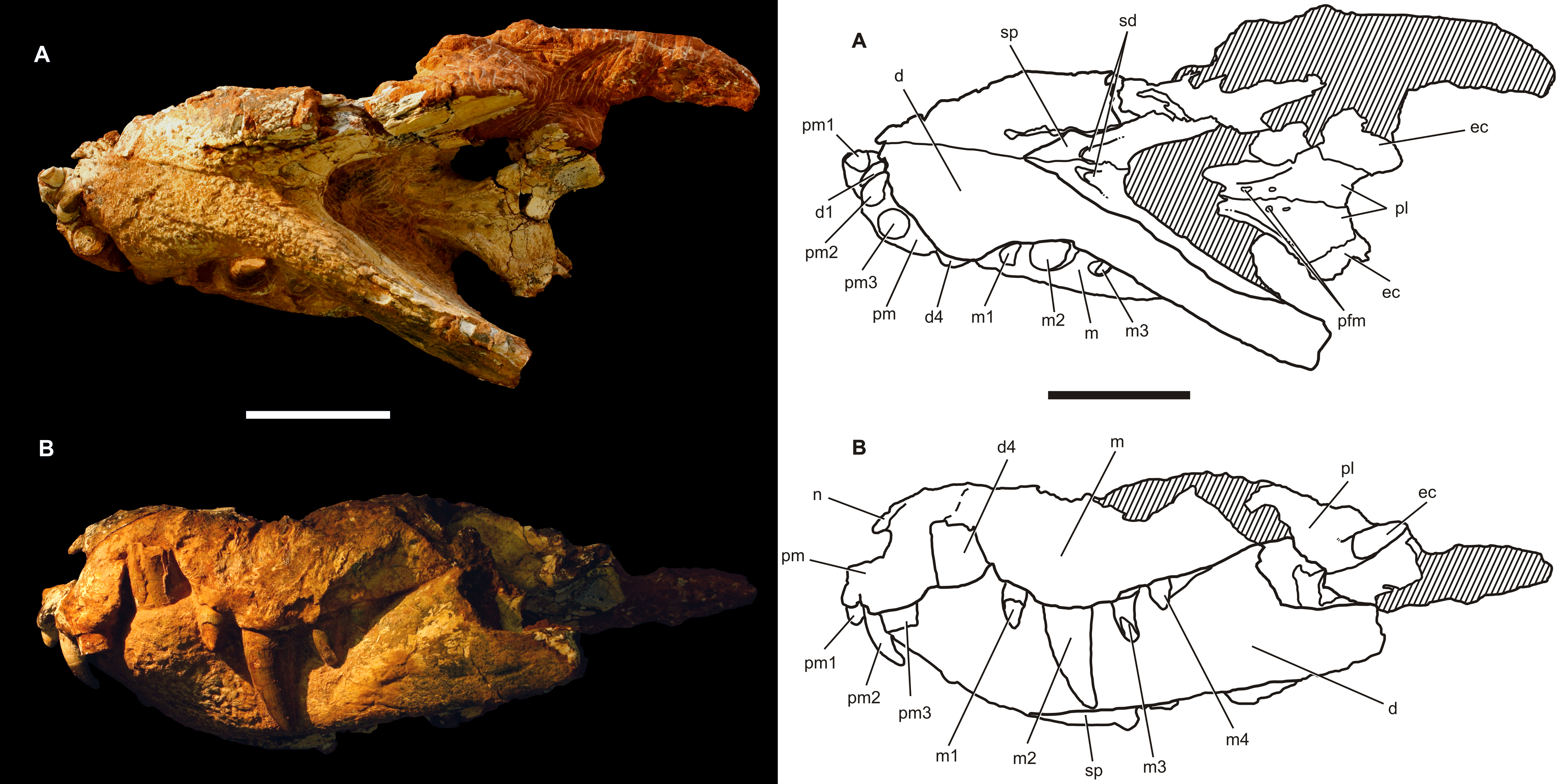 Left: Skull of the referred specimen of Pissarrachampsa sera (LPRP/USP 0018). A) ventral; B) lateral (mirrored) views. Scale bar equals 5 cm. Right: Skull of the baurusuchid Pissarrachampsa sera. A) and C) Drawing of the skull LPRP/USP 0019 (holotype) in strict lateral (left) and ventral views, respectively. B) Reconstruction of the dorsal surface of the same skull, based on a strict dorsal view of skull roof and a slightly posterodorsal view of the occipital plane. Hatched areas indicate broken surfaces. Reconstruction of the anterior part of the rostrum based on the referred specimen (LPRP/USP 0018). Abbreviations: ap, anterior palpebral; bs, basisphenoid; cg, choanal groove; ec, ectopterygoid; ecfm, ectopterygoid foramina; Ef, medial Eustachian foramen; f, frontal; fmg, foramen magnum; fr, frontal ridge; j, jugal; jir, jugal infraorbital ridge; l, lacrimal; lEf, lateral Eustachian foramen; lf, lacrimal duct foramen; mx, maxilla; m1-m4, maxillary teeth (1–4); n, nasal; oa, otic aperture; oc, occipital condyle; p, parietal; pcf, parachoanal fenestra; pcfo, parachoanal fossae; pfm, palatine foramina; pfp, pl, palatine; pm, premaxilla; po, postorbital; popr, paraoccipital process; pp, posterior palpebral; prf, prefrontal; pt, pterygoid; q, quadrate; qd, quadrate depression; qf, quadrate fenestrae; qj, quadratojugal; ra, ridge ‘A’; se, choanal septum; soc, supraoccipital; sq, squamosal; tof, temporo-orbital foramen. Scale bar equals 10 cm.